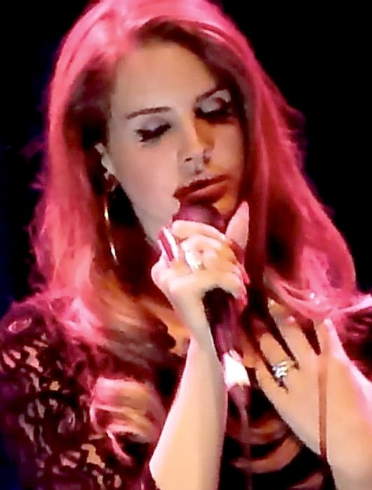 Lana del Rey Cologne 2011-11-12